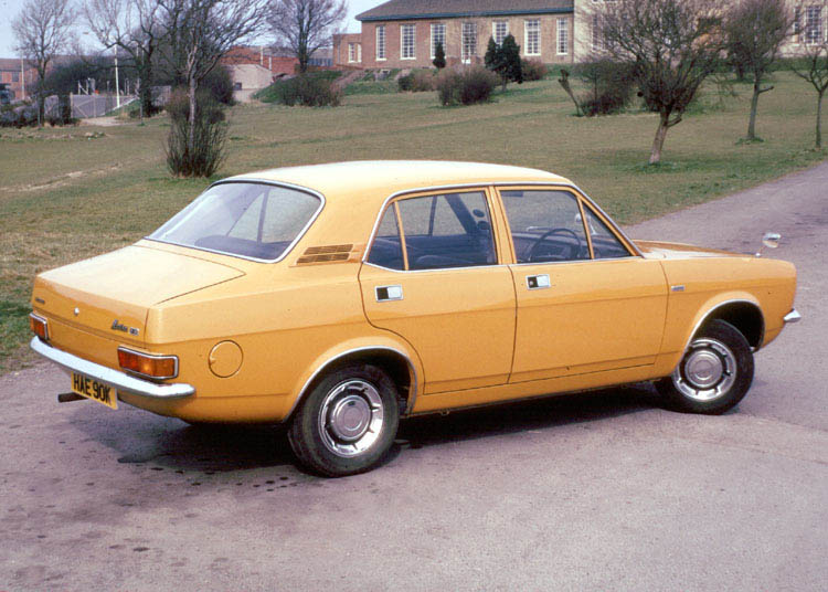 Morris Marina in Bristol, England.